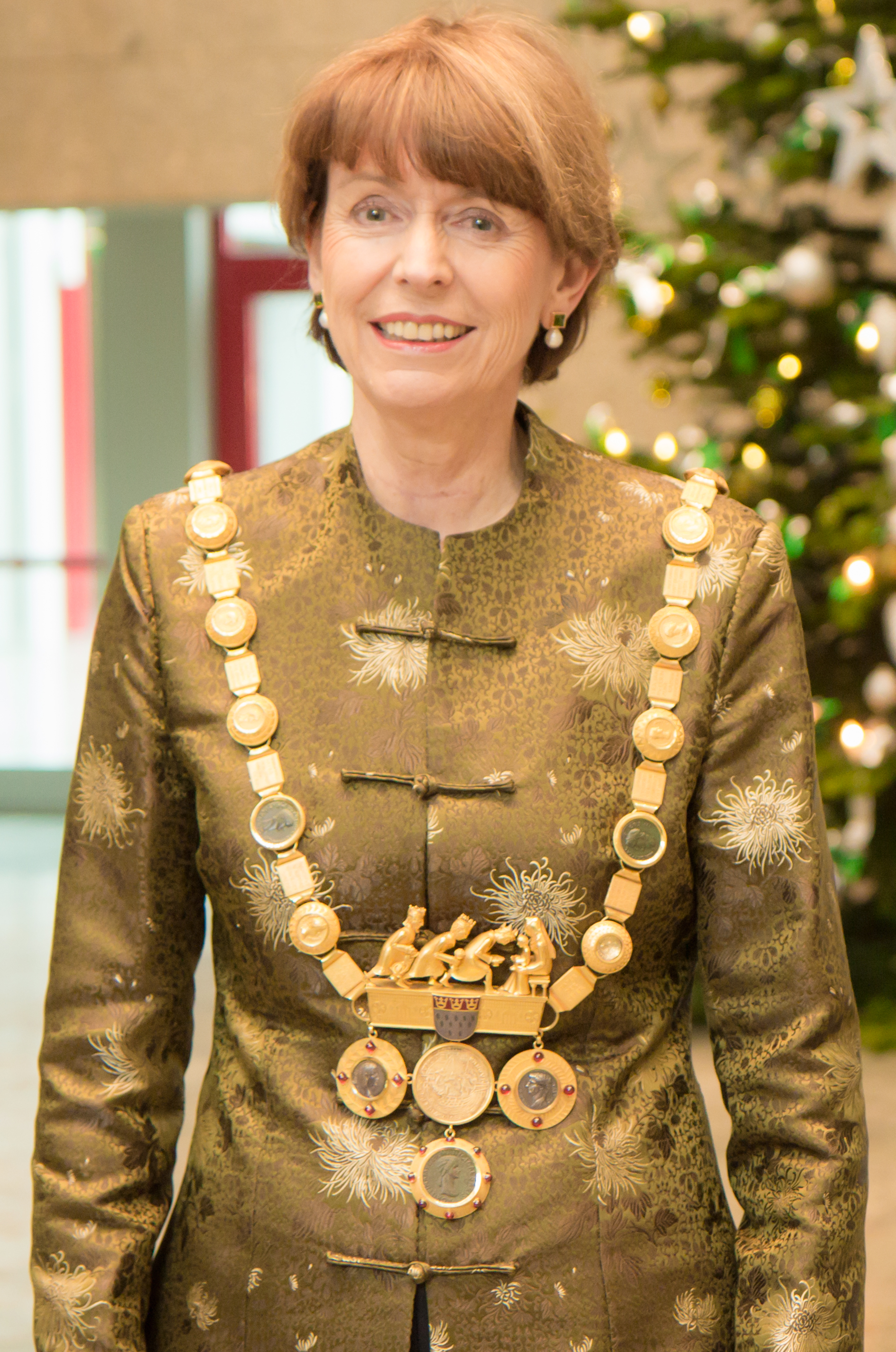 Liu Yandong, Vice Premier of the People's Republic of China. Reception in the Cologne town hall for her and her delegation.